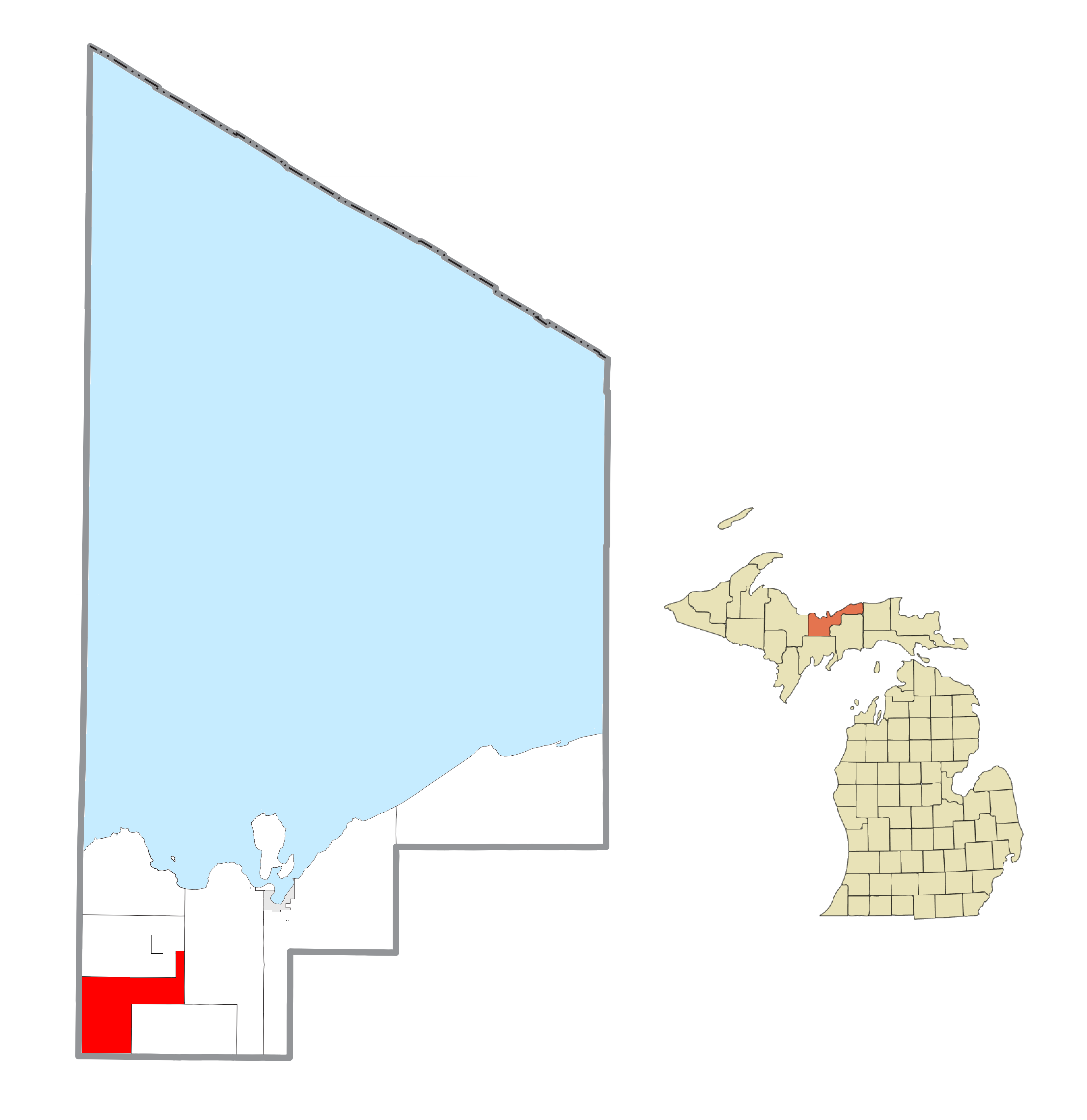 Limestone Township, MI